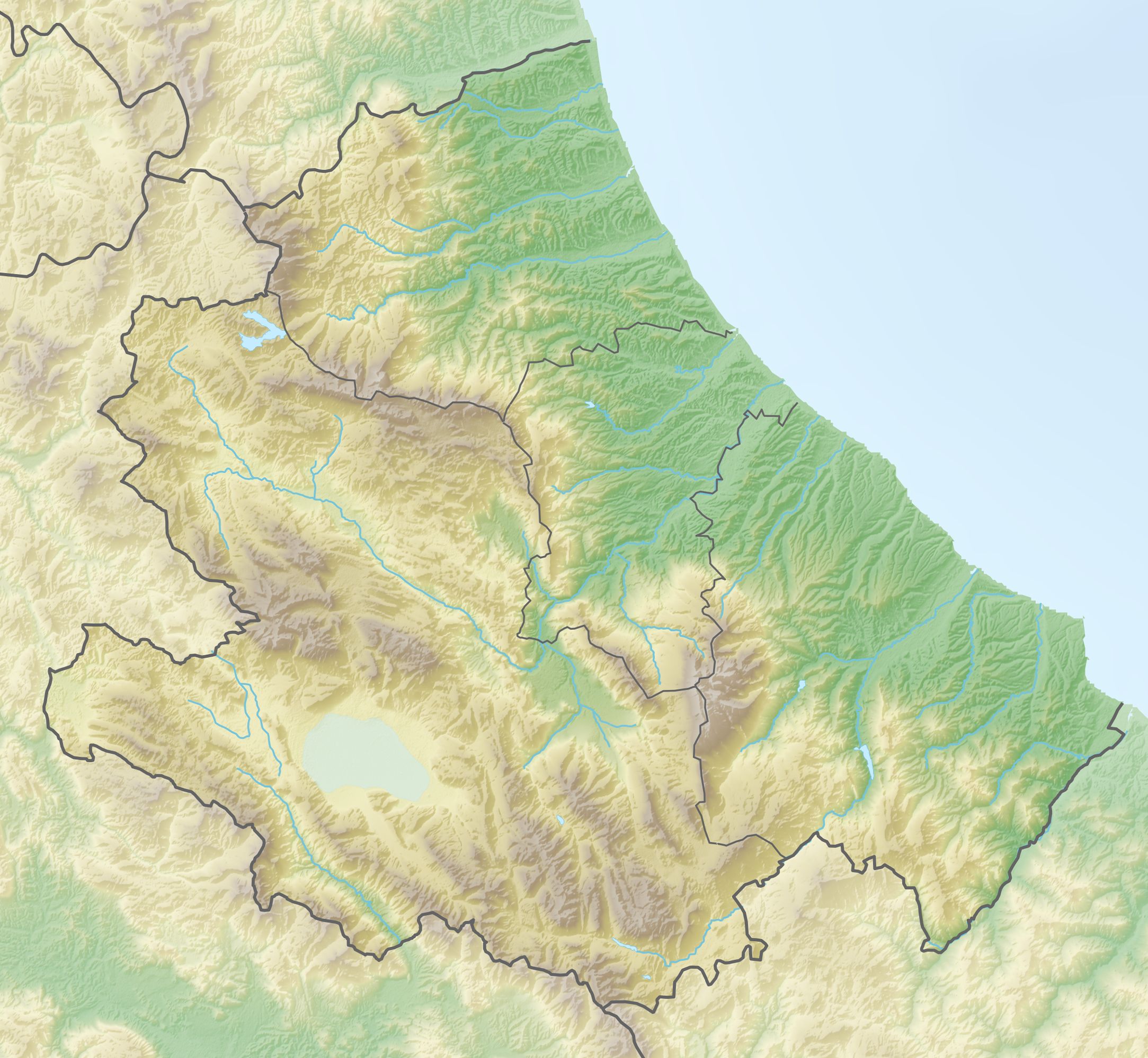 Location map of Abruzzo region (Italy)